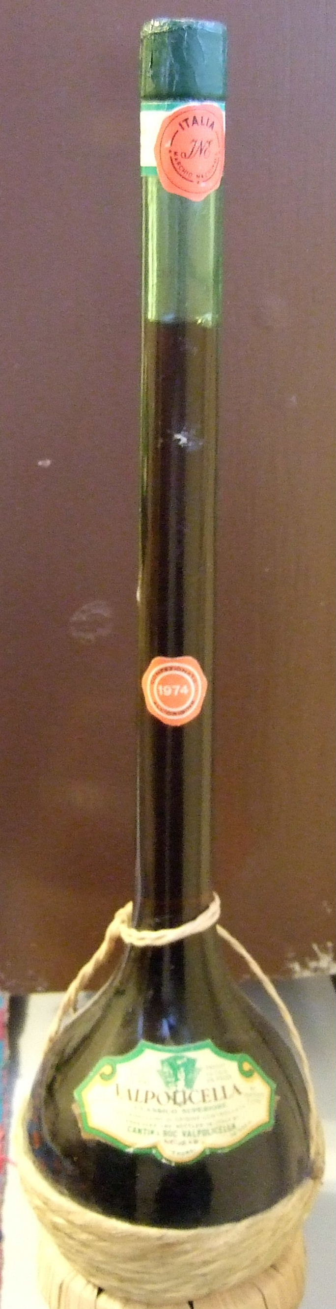 Italian wine with unusual long neck wine bottle in a "fiasco" basket (similar to how Chianti is usually packaged)